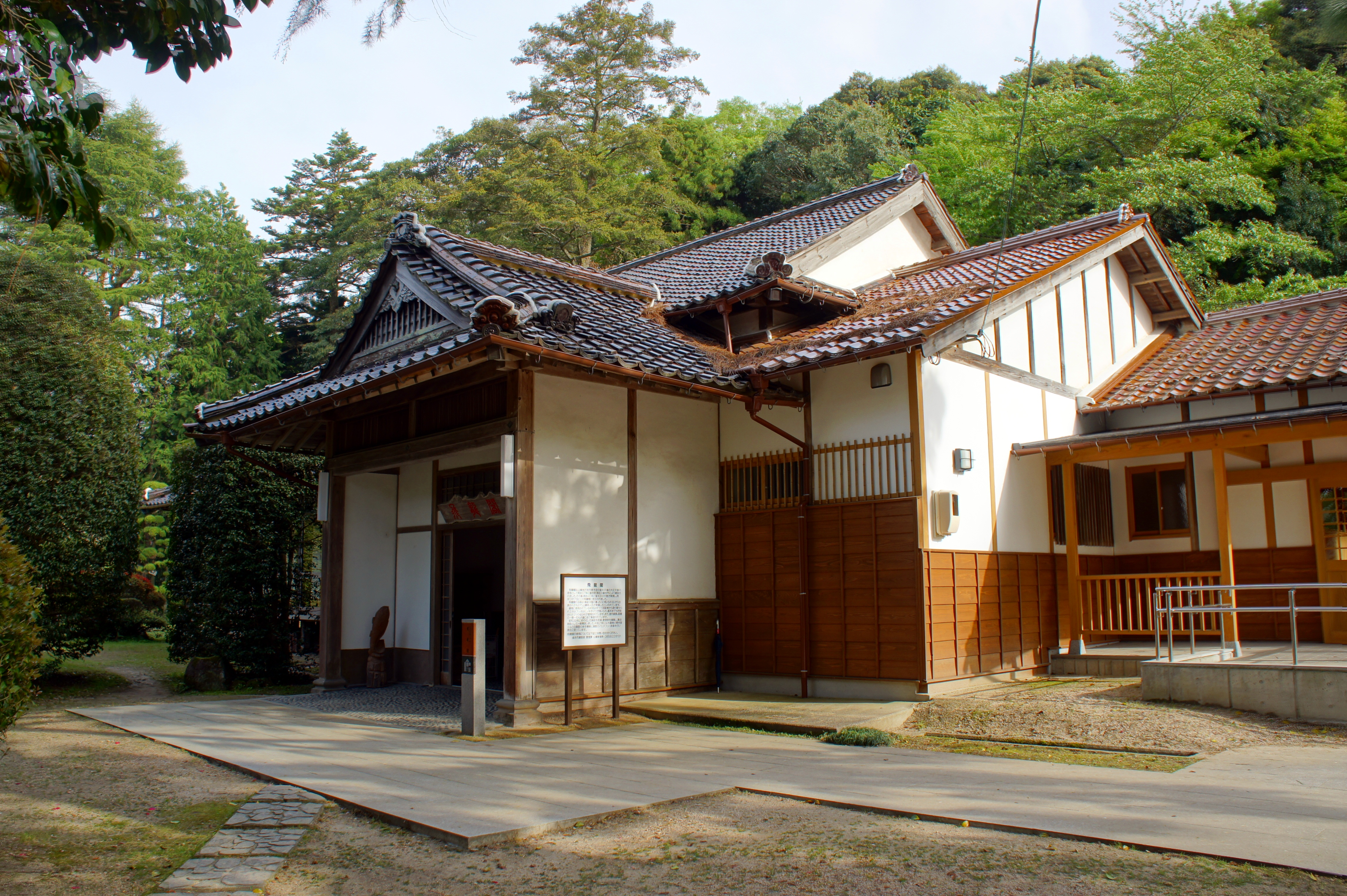 Hiryūkaku (Kurayoshi, Tottori Prefecture, Japan)